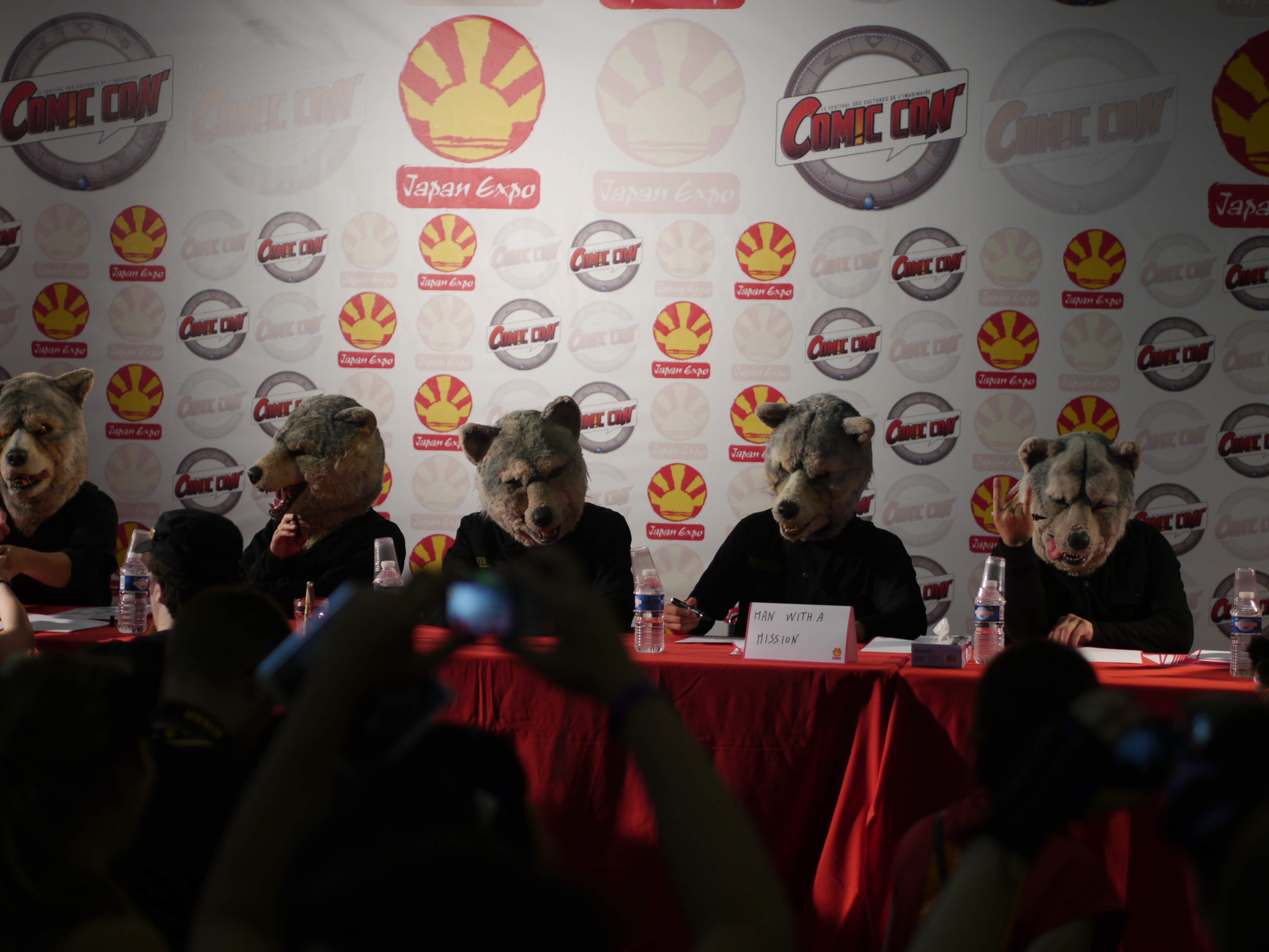 Japan Expo Festival, 13th impact